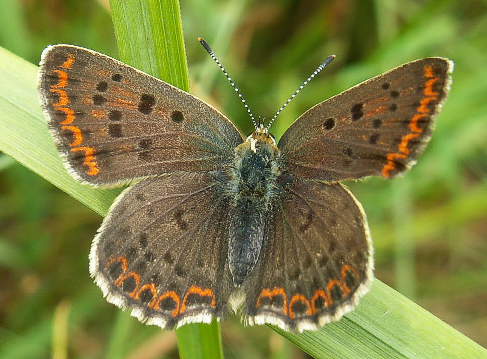 Lycaena tityrus, female. Wet meadow, near Goleniow, NW Poland (previously described as L. virgaureae, what was mistake)